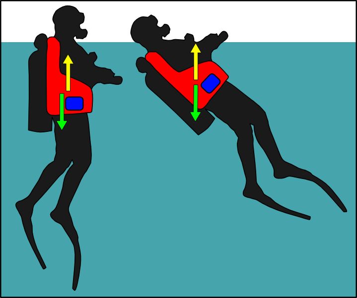 Diver with later jacket BCD stabilised at surface